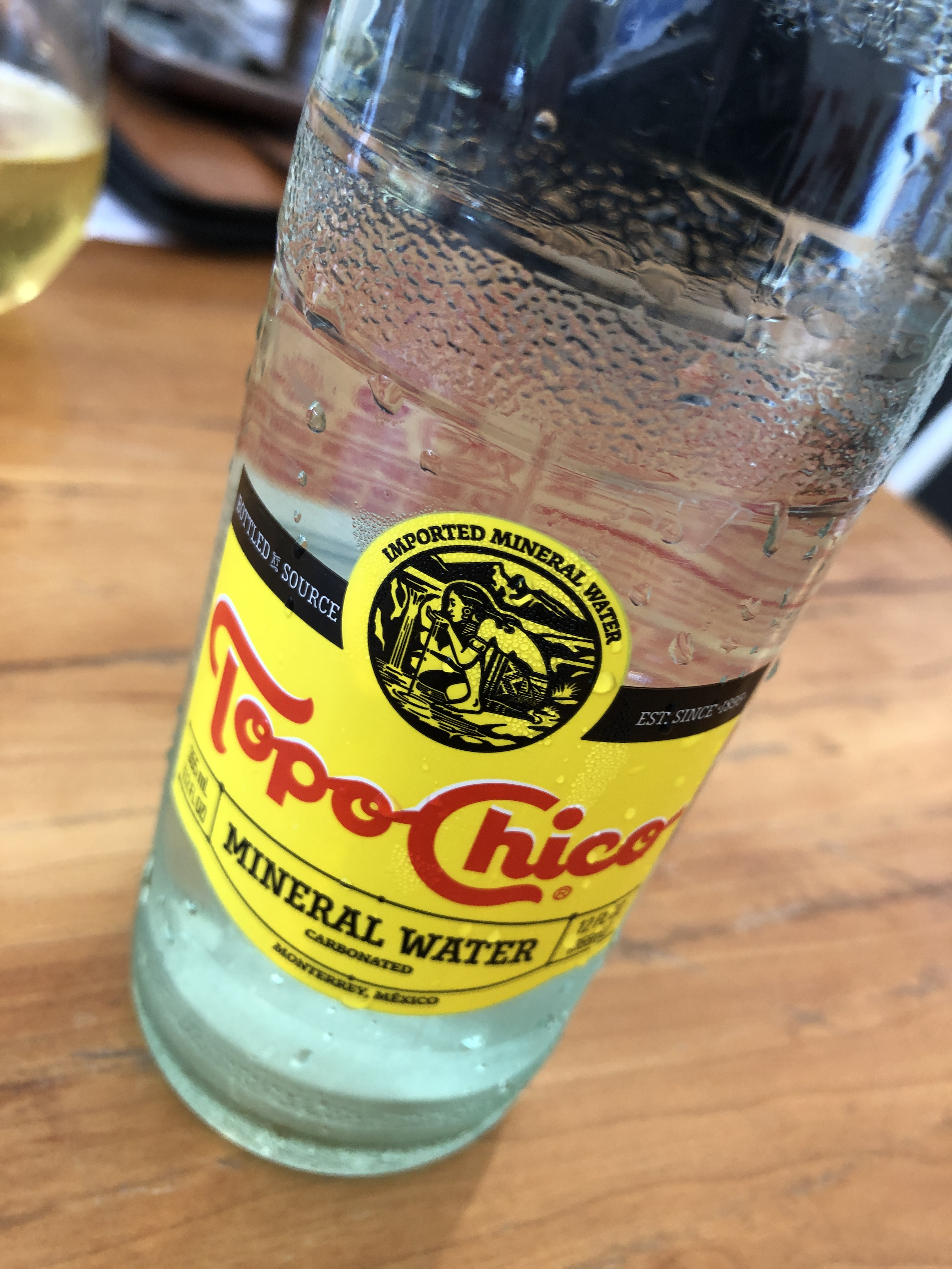 Topo Chico at WEST - Handmade Burgers in Sonoma, California